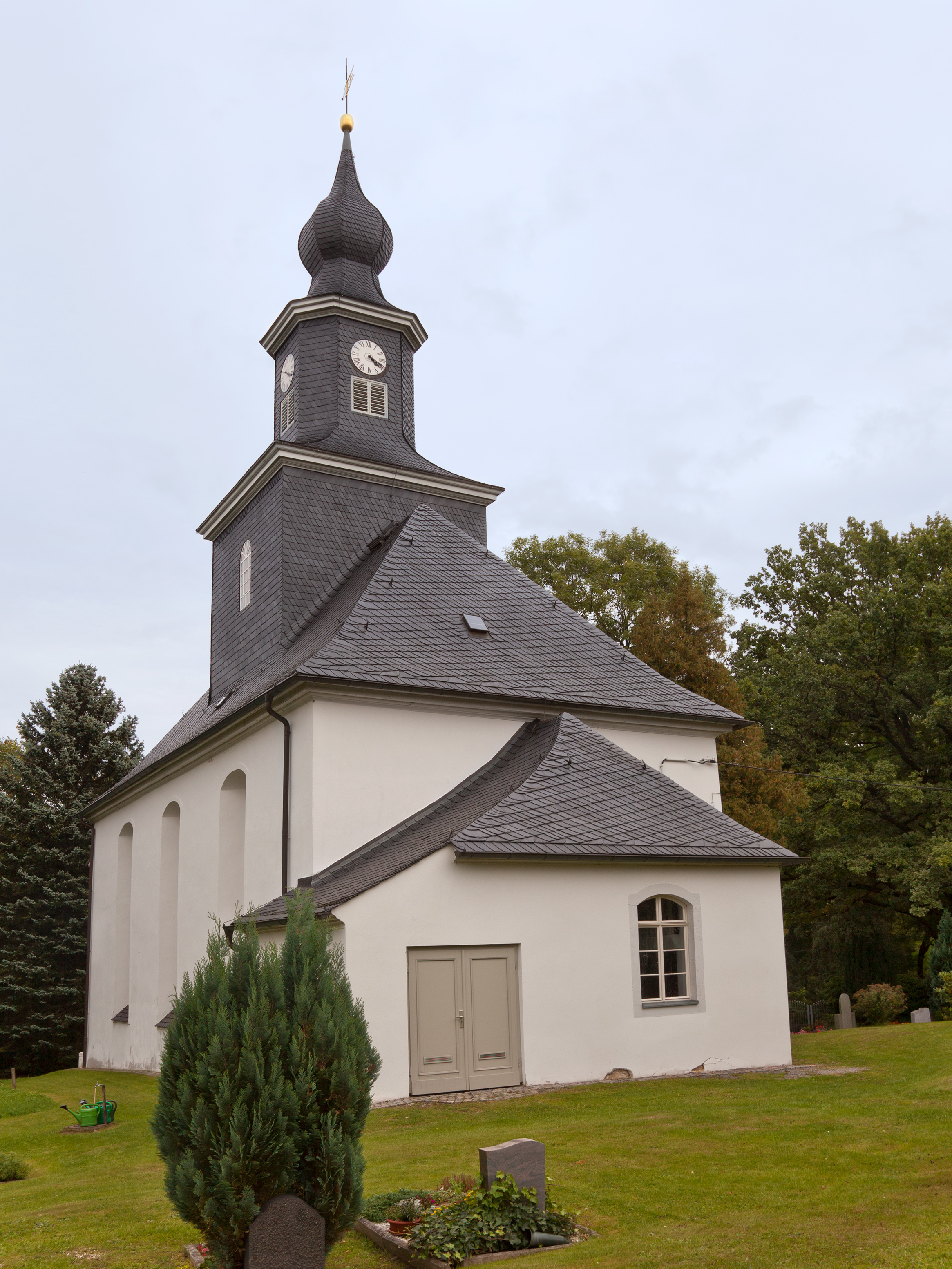 Kirchbach (Oederan), Church